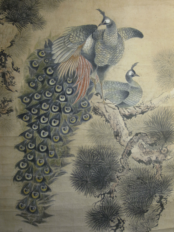 Painting by Hijikata Tôrei